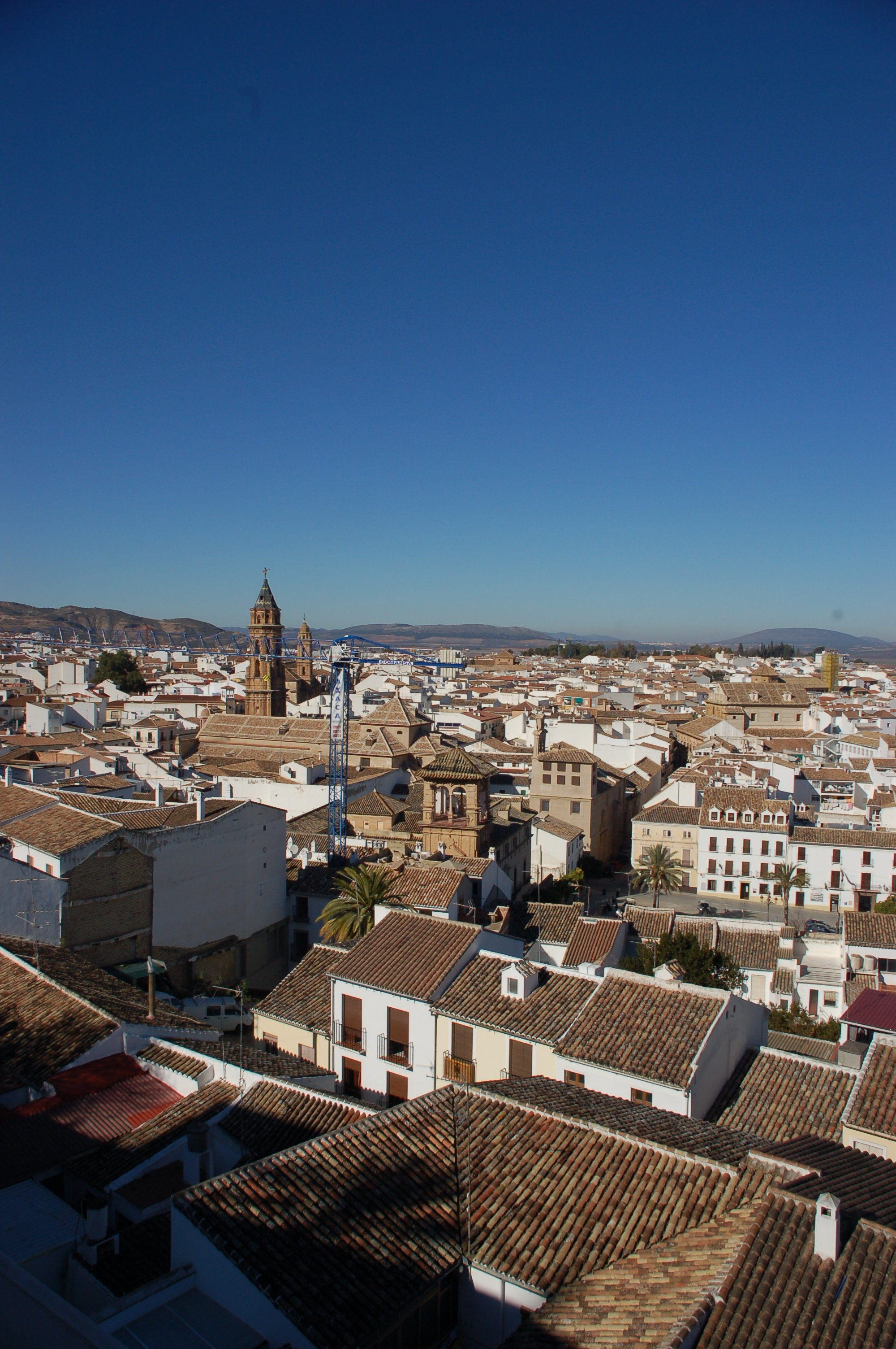 Part of the panorama image below